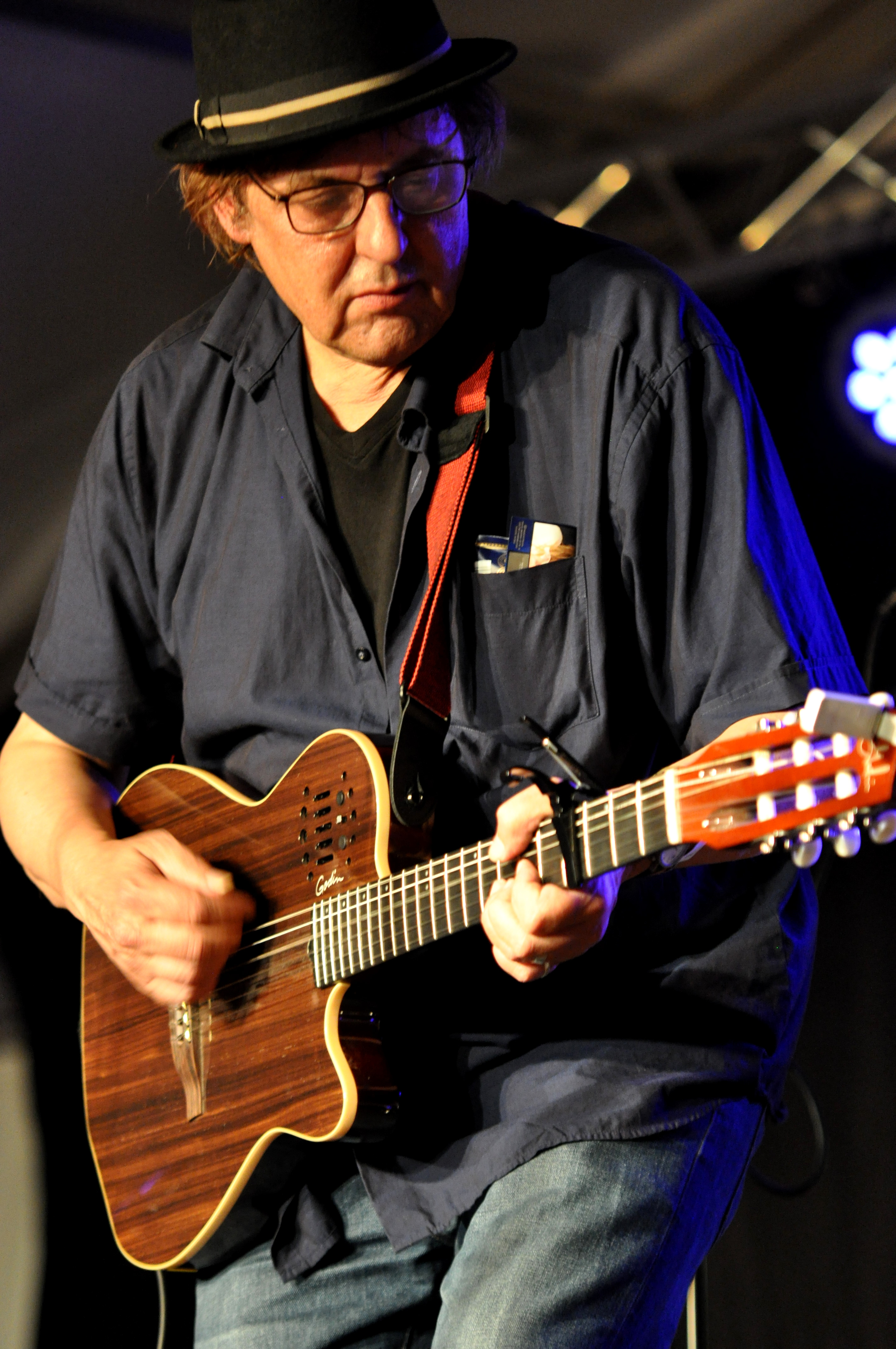 Danny Dziuk and Band (DEU) appearance at the 2017 song festival at Burg Waldeck Castle, Rhineland-Palatinate, Germany Festivalsommer This photo was created with the support of donations to Wikimedia Deutschland in the context of the CPB project "Festival Summer".